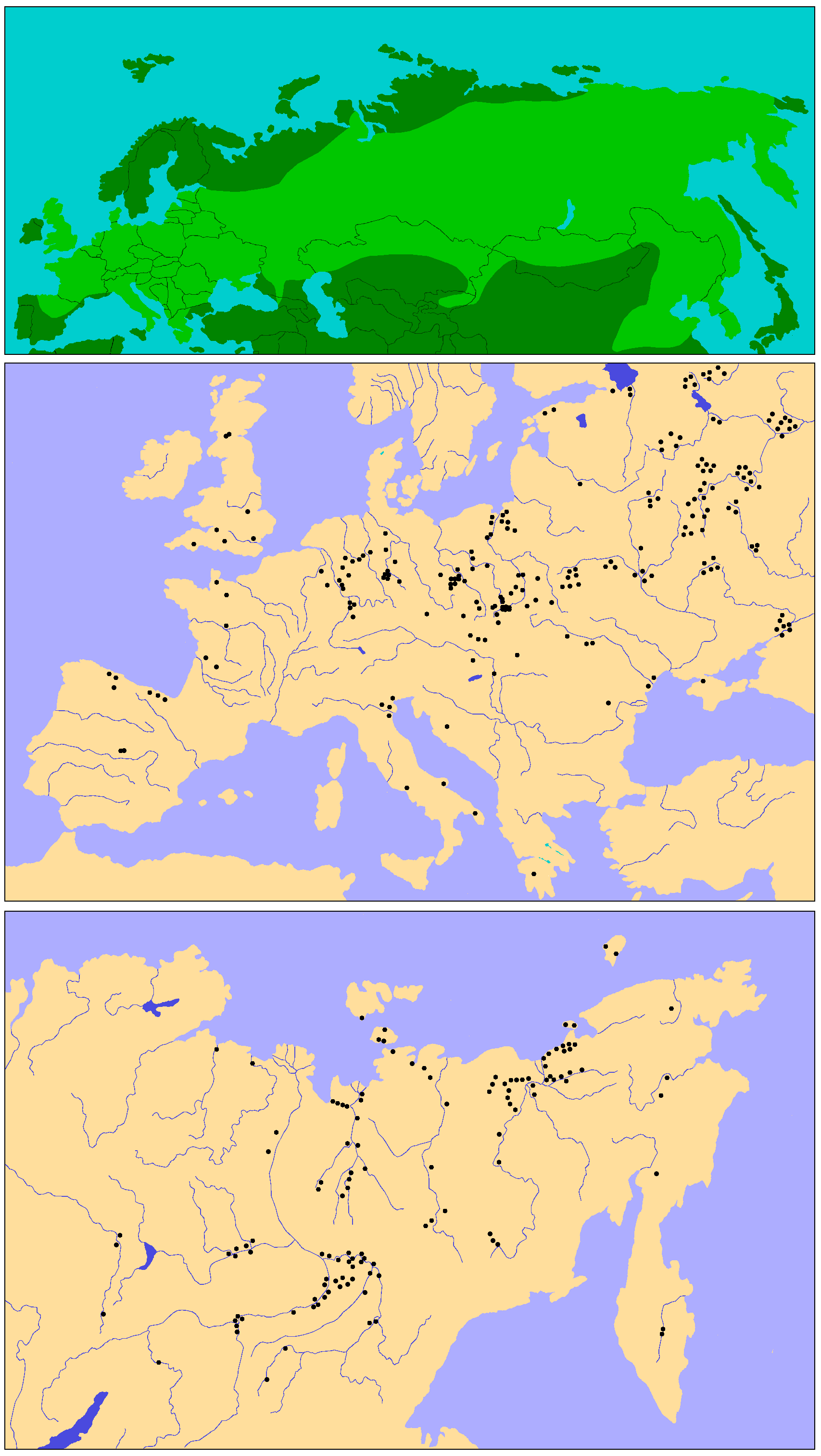 distribution of woolly rhino (Coelodonta antiquitatis) with national borders. Above: Maximum Distribution in Eurasia during Weichselian Glacial, center: distribution in Europe, below: distribution in North East Asia.